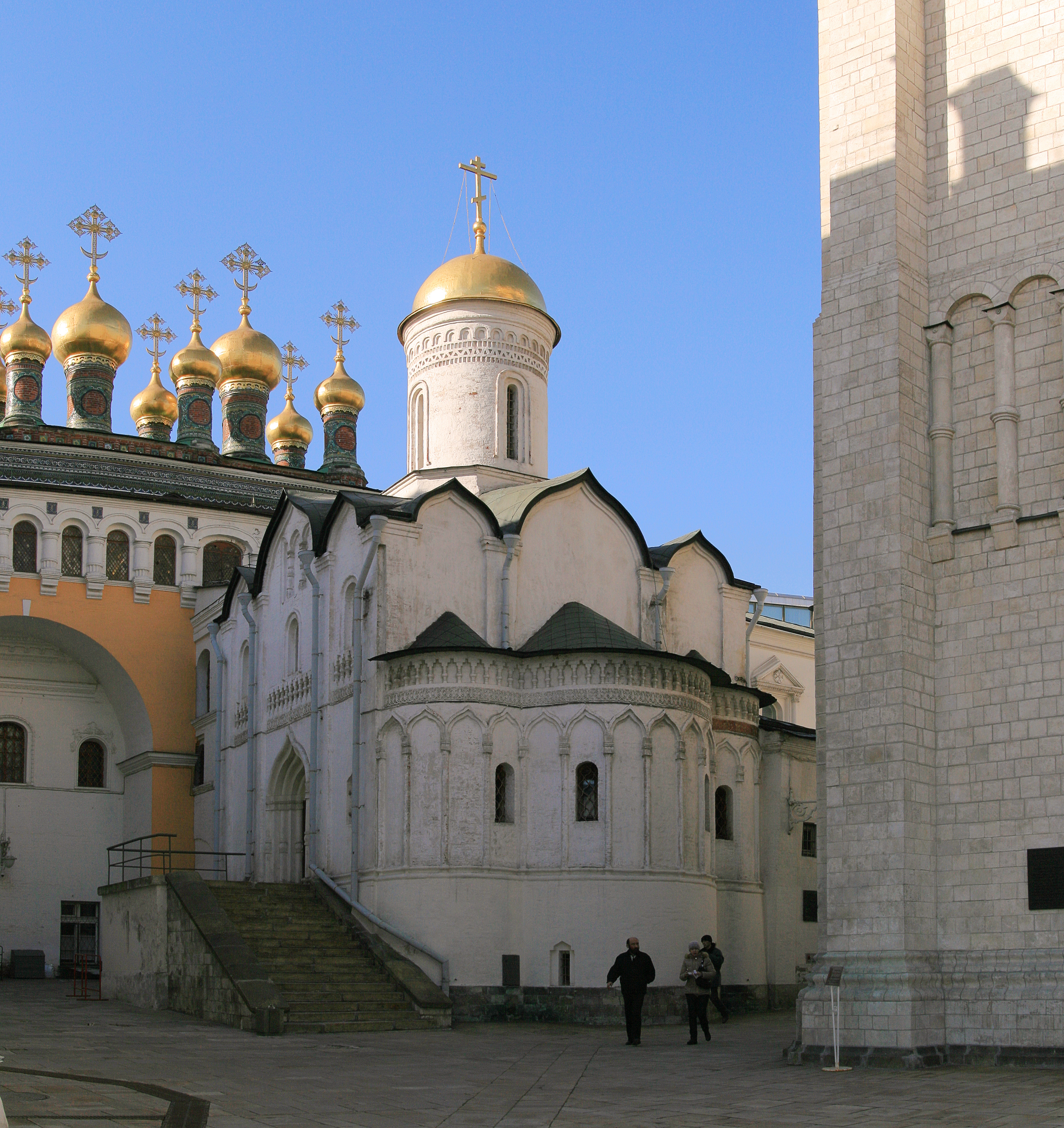 Moscow Kremlin, Church of the Deposition of the Robe